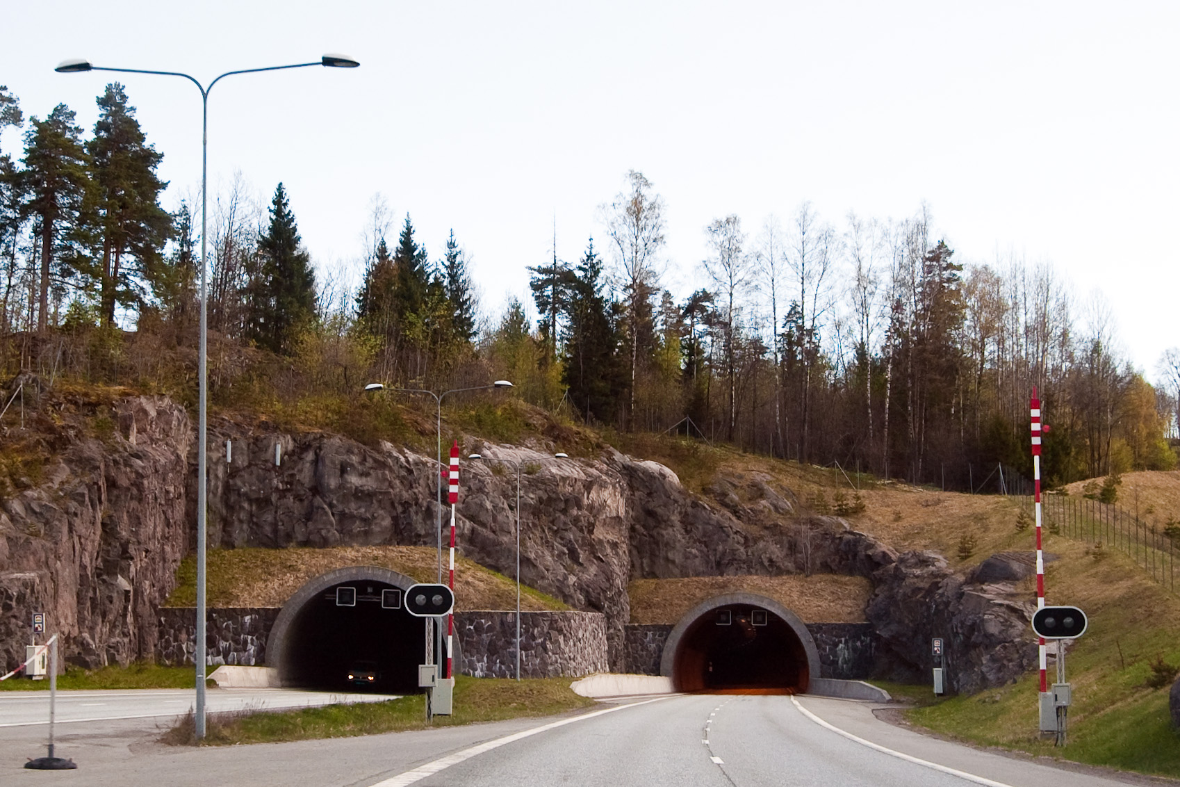 Brekke tunnel on E18 in Re, Vestfold, Norway. Seen from the north.